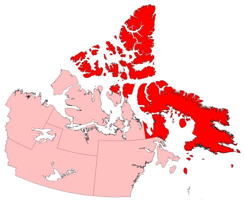 Baffin Region, Northwest Territories, Canada (as existing before 1999)